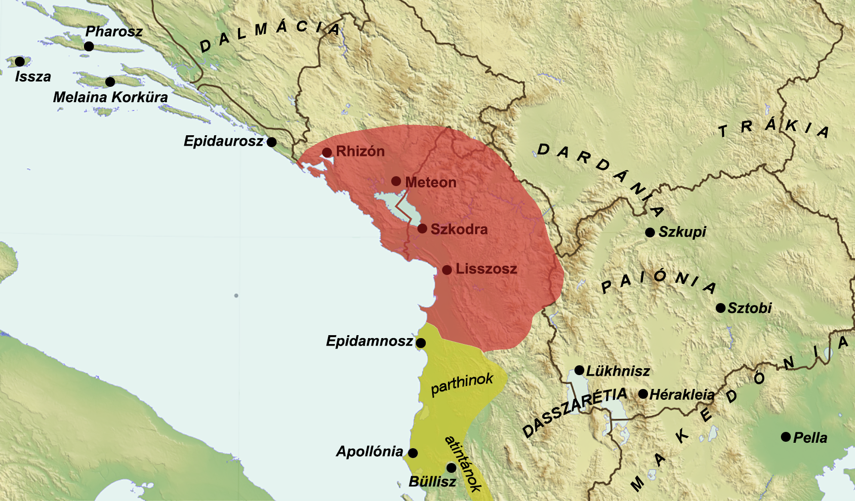 Approximative territory of the Illyrian Kingdom of Pinnes (regent: Teuta) (red area) and the Roman protectorate (yellow) at the end of the First Illyrian War in 228 BC with Hungarian labels. Map based on multiple books and papers: - Wilkes 1992: John Wilkes: The Illyrians. Oxford; Cambridge: Blackwell. 1992. = The Peoples of Europe, ISBN 0631146717 - Marjeta Šašel Kos: The Roman conquest of Illyricum (Dalmatia and Pannonia) and the problem of the northeastern border of Italy. Studia Europaea Gnesnensia, VII. évf. (2013) 169–200. o. - Neritan Ceka: The Illyrians to the Albanians. Tirana: Migjeni. 2013. ISBN 9789928407467 Šašel Kos publishes the map of the Roman protectorate as you see here on the map.